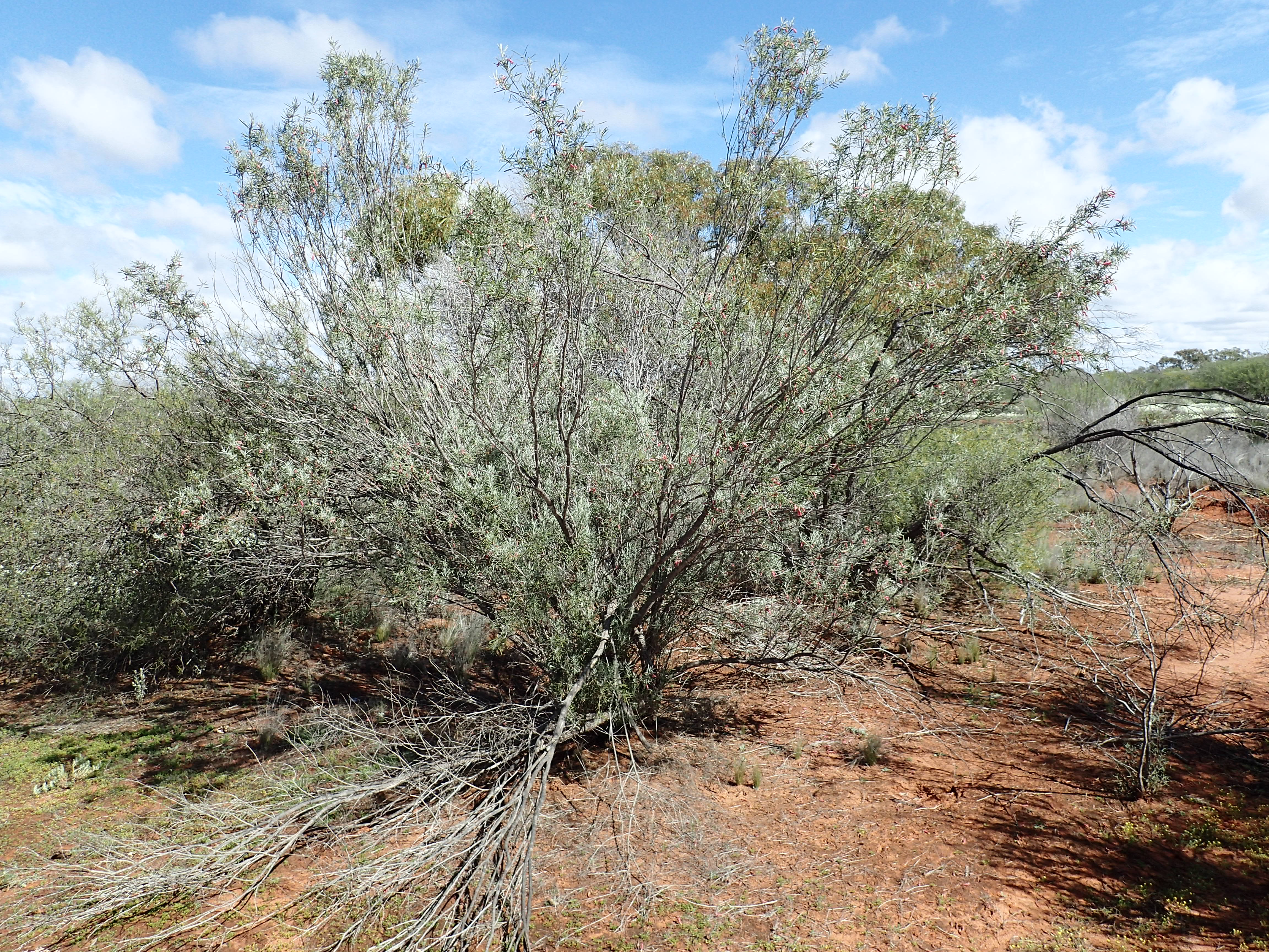 Eremophila youngii youngii growing 35km north of the vermin fence near the North West Coastal Highway